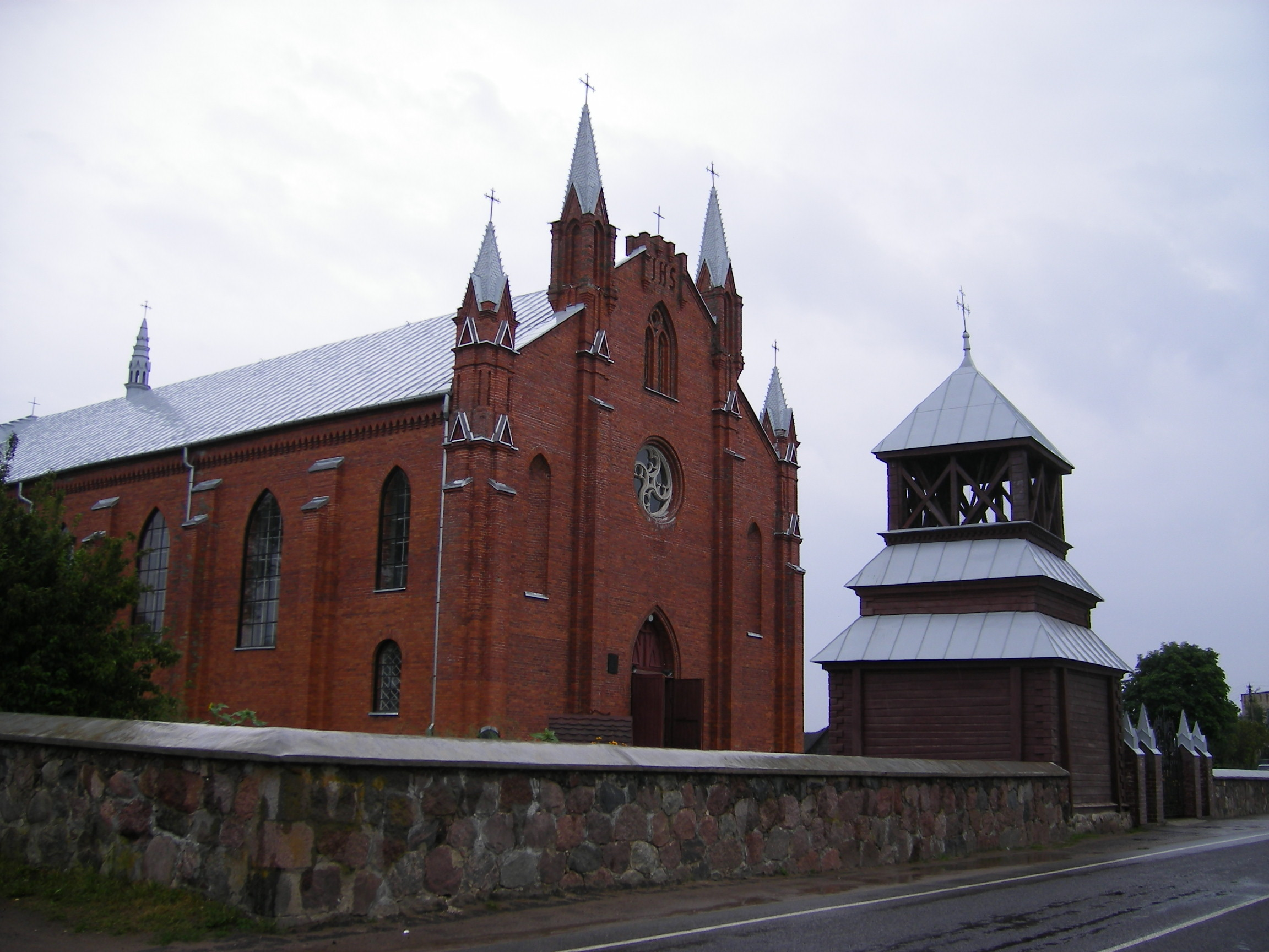 Narach, St. Andrew Church